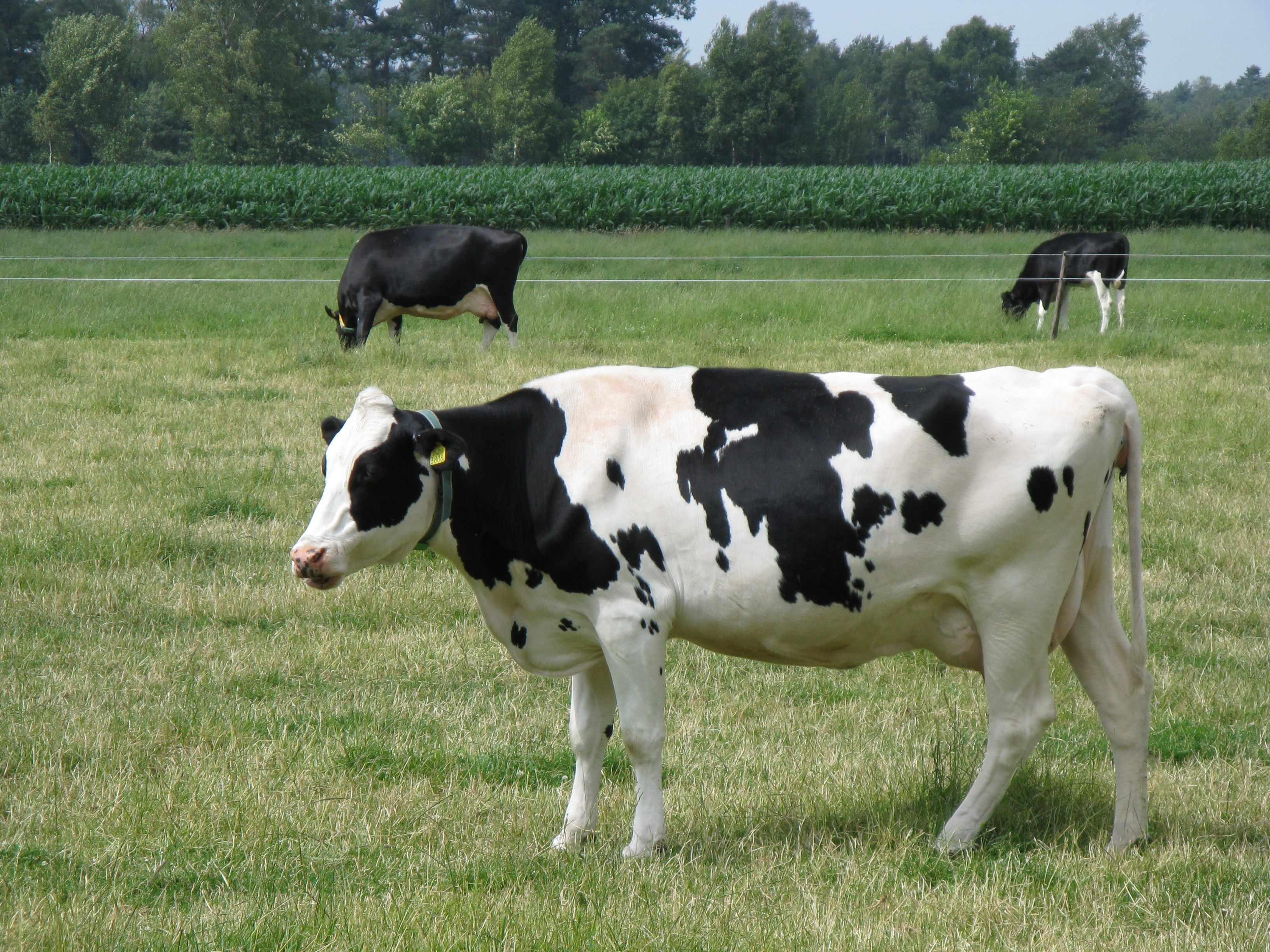 cow